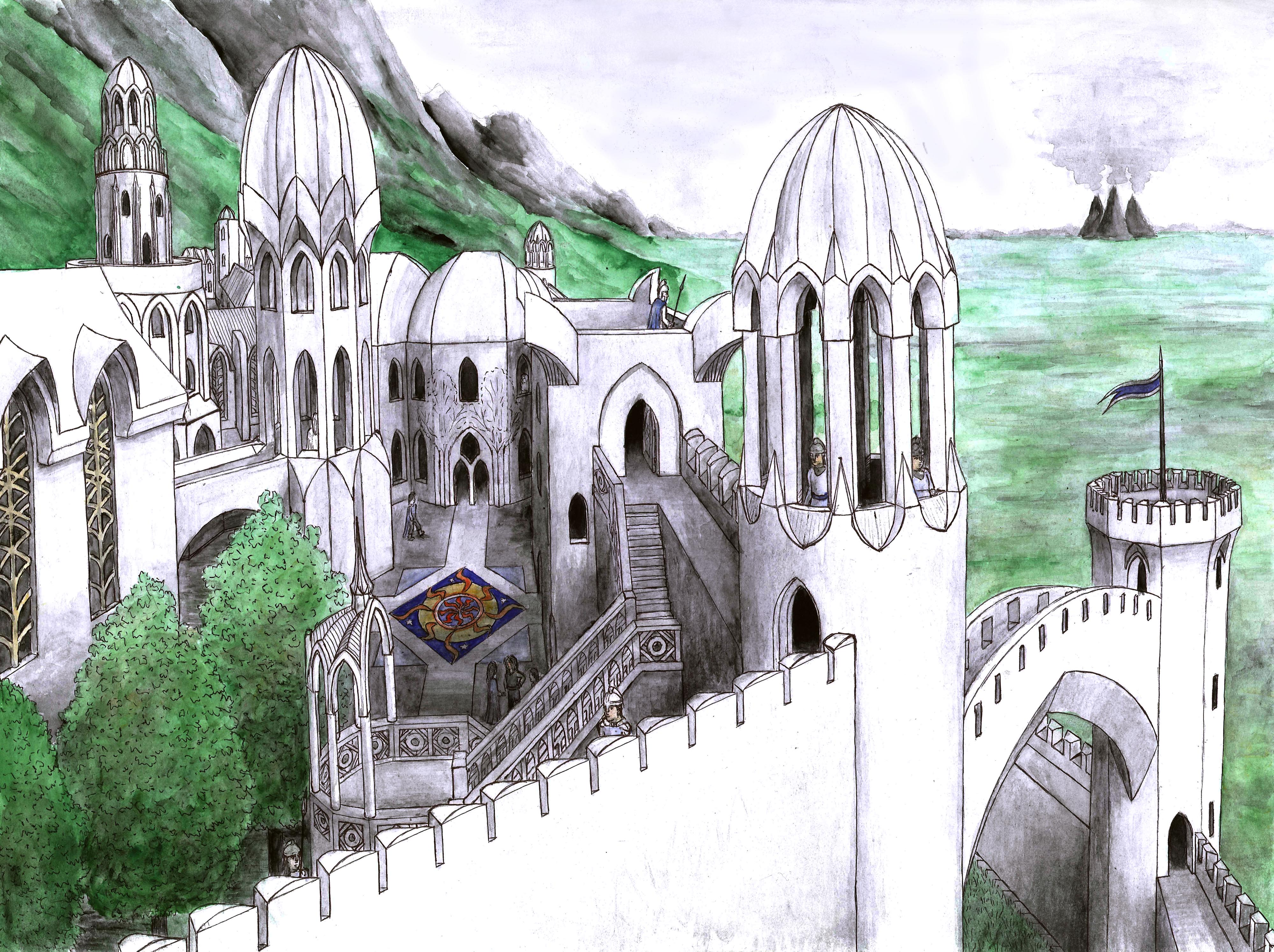 The fortress Barad Eithel of the High King Fingolfin